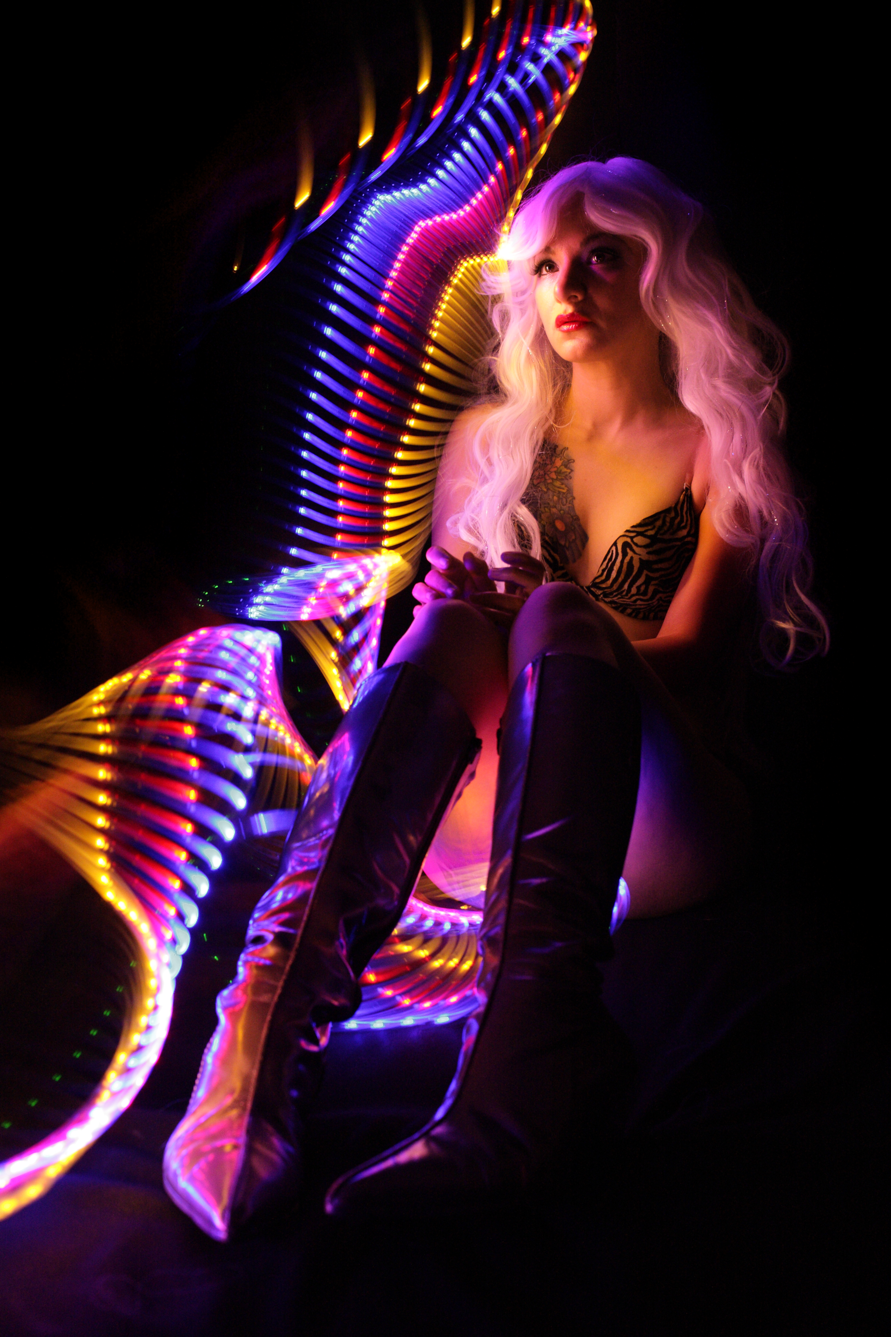 A light painting photography by the artist Beo Beyond